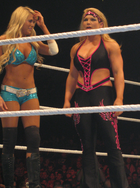 Beth Phoenix (right) & Kelly Kelly (left) @ Adelaide, South Australia 'RAW' house show on the 4th of July '11